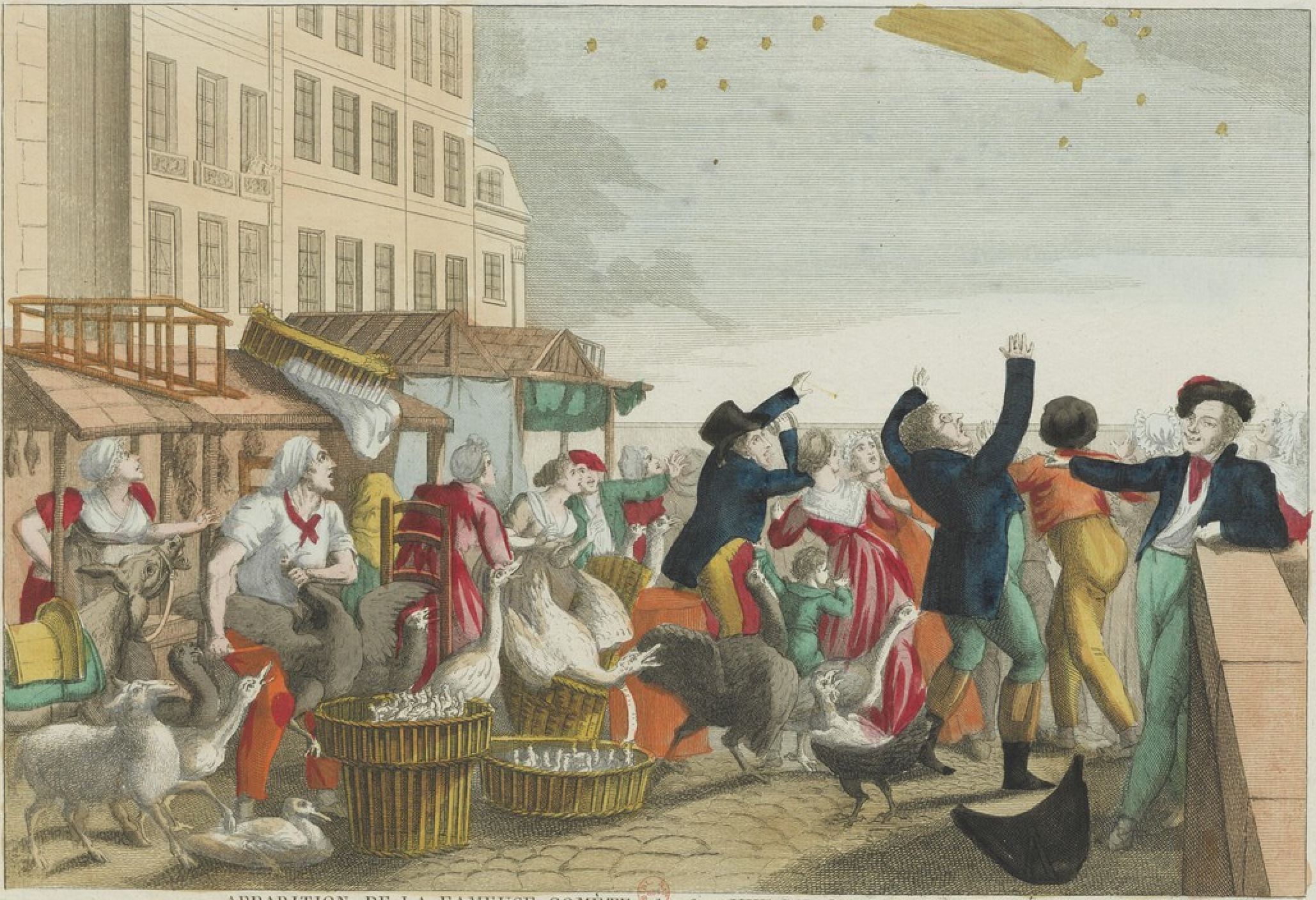 Appearance of the famous comet (of 1811), view from the quai de la Vallée. Anonymous engraving. Paris, musée Carnavalet.